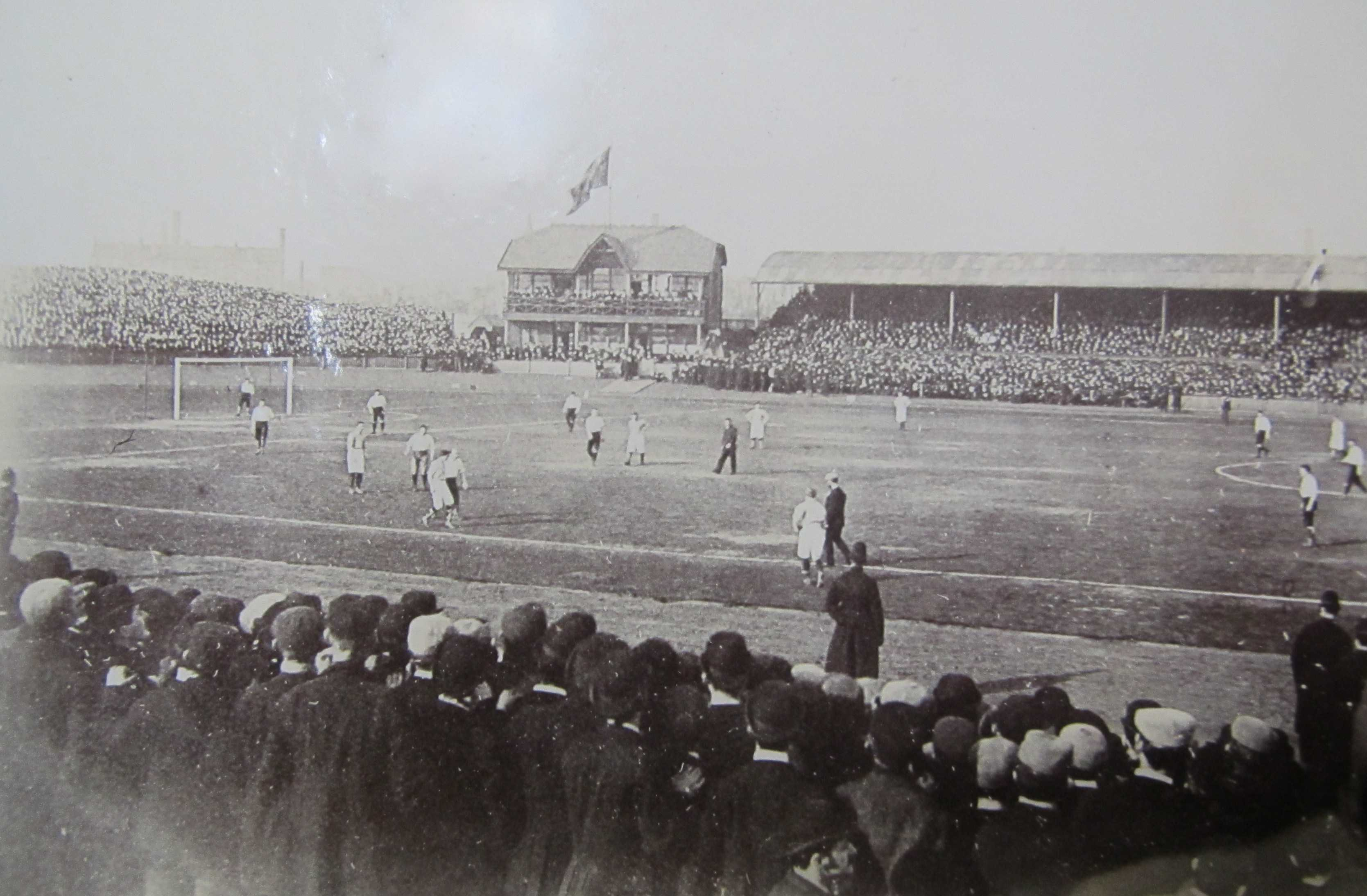 Scotland v England - Celtic Park - 7th April 1894 - 2-2 - Lambie McMahon - Goodall Reynolds - 45,107